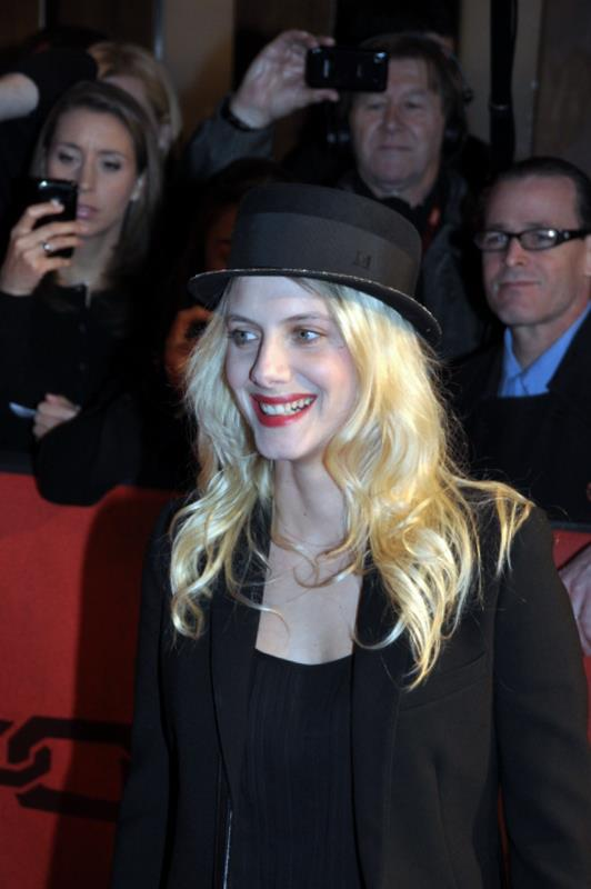 Mélanie Laurent at the French premiere of "Django unchained"